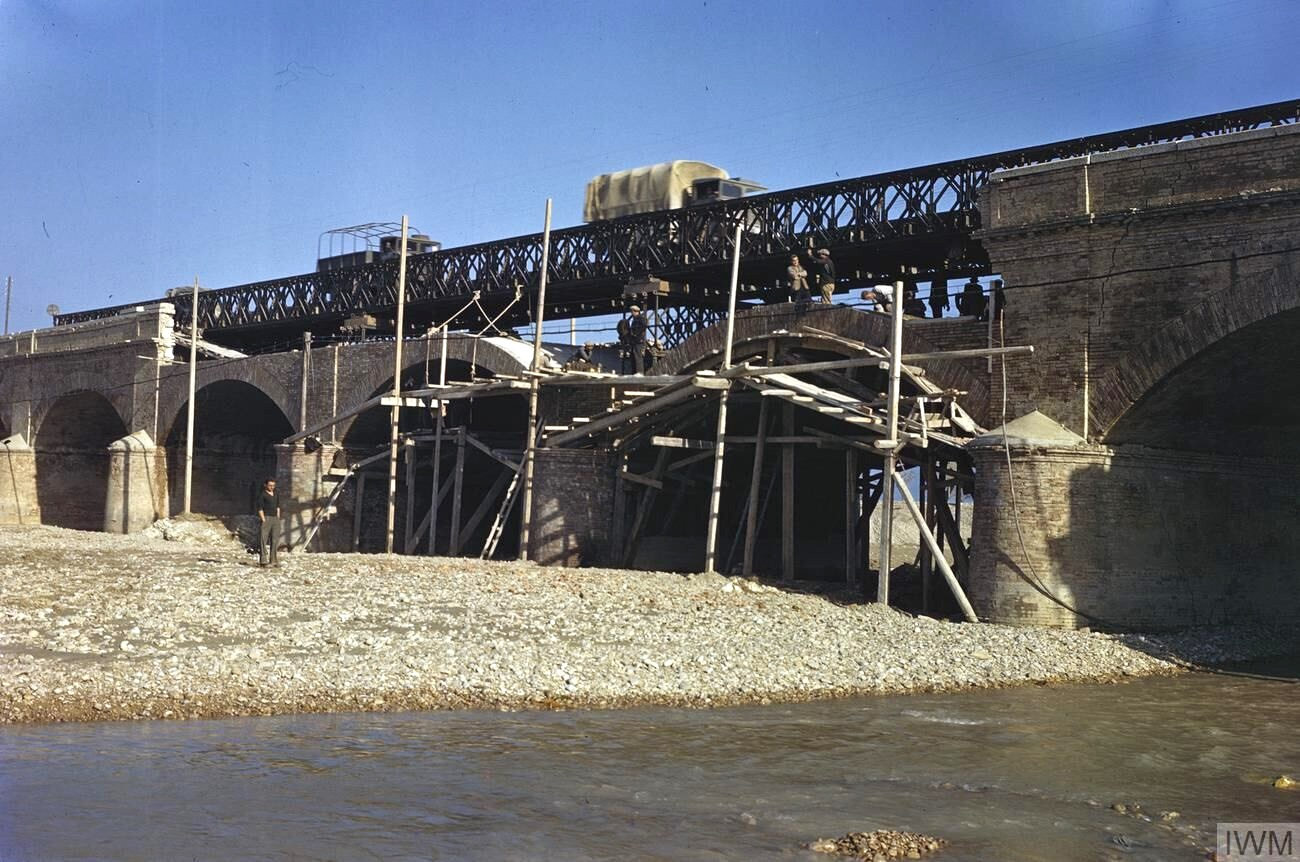 The British Army in Italy, 1944 A Bailey Bridge constructed by Royal Engineers carries Allied military traffic over a river in Italy while Italian labourers repair the demolished bridge alongside.